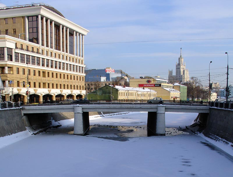 Chugunny Bridge, Moscow, Russia